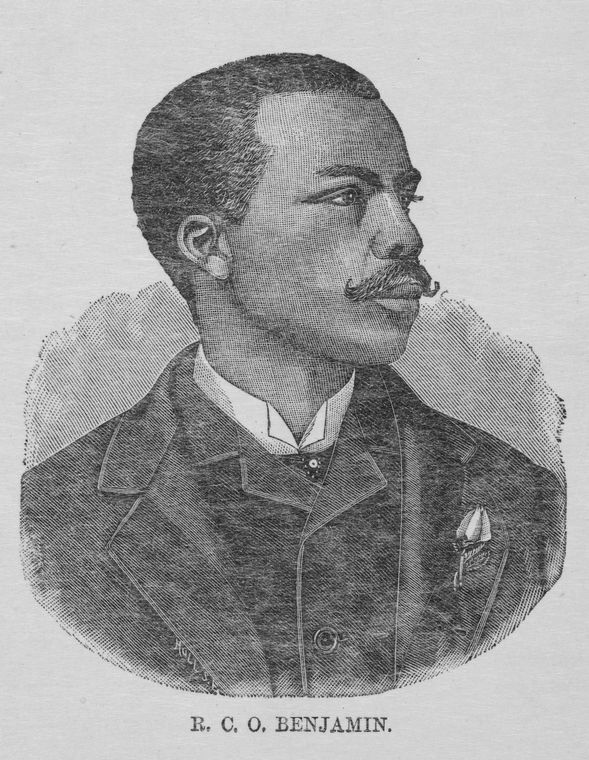 Benjamin in 1891